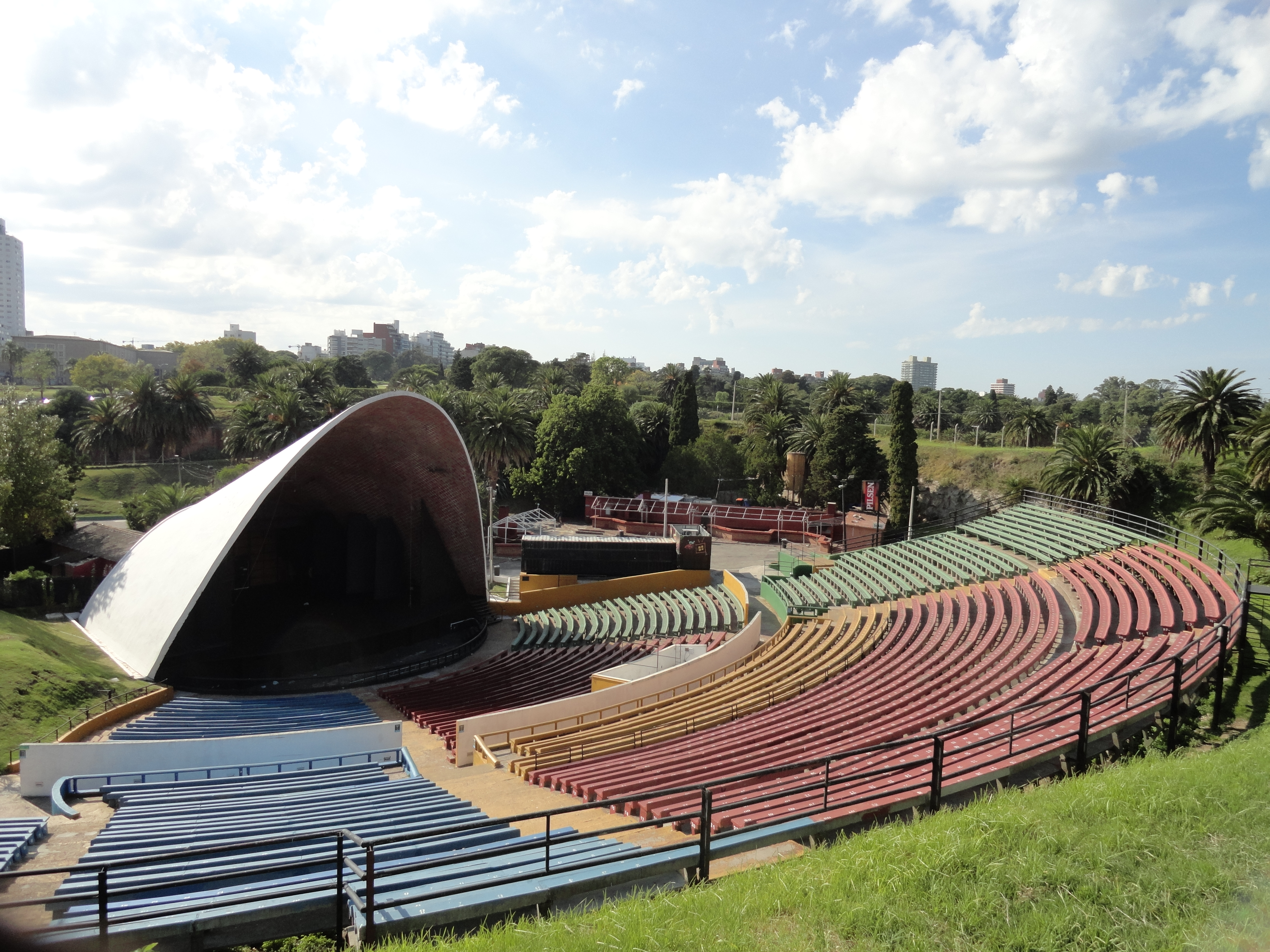 Teatro de Verano in Montevideo, Uruguay.